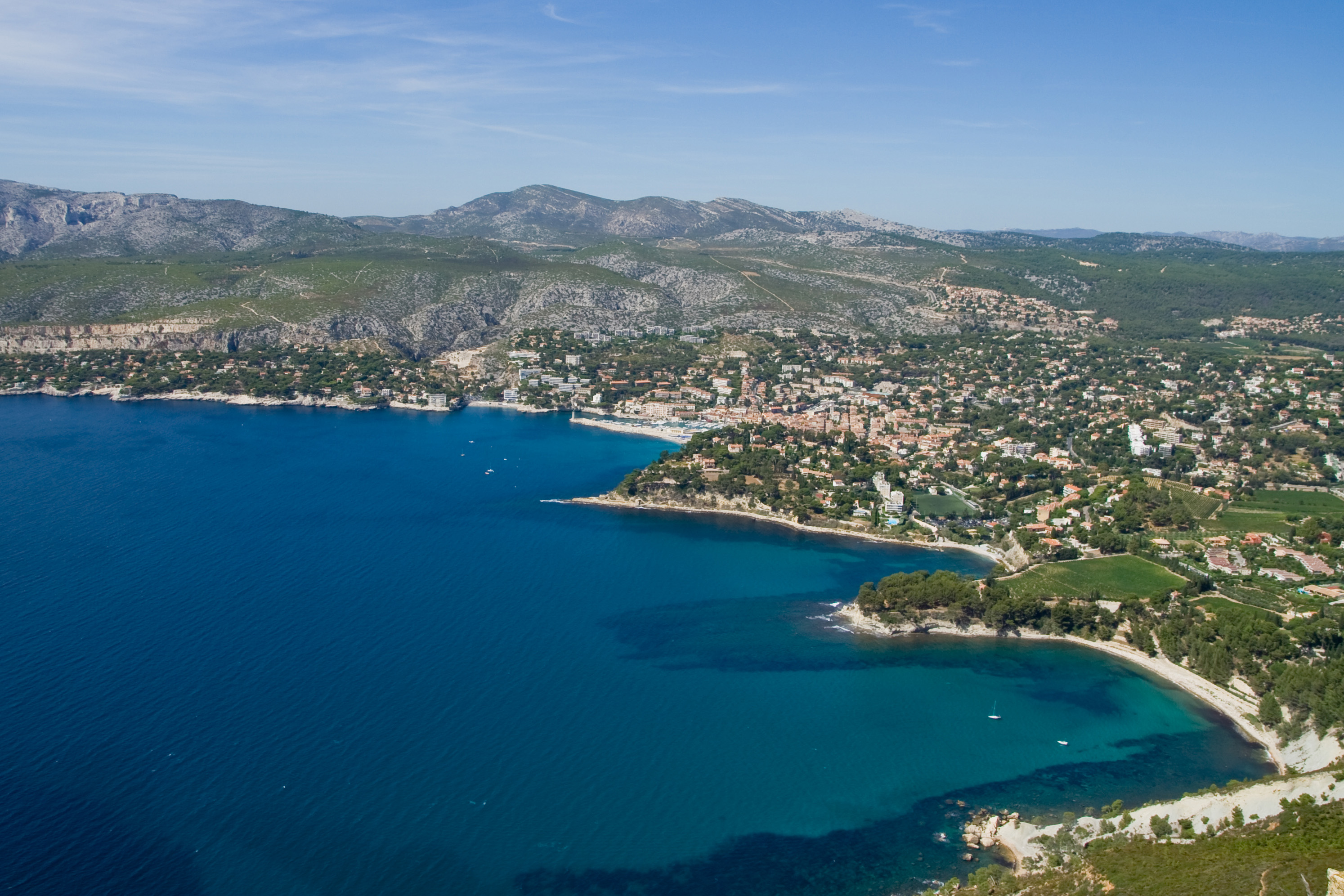 Typical Coast of the French riviera, Cassis